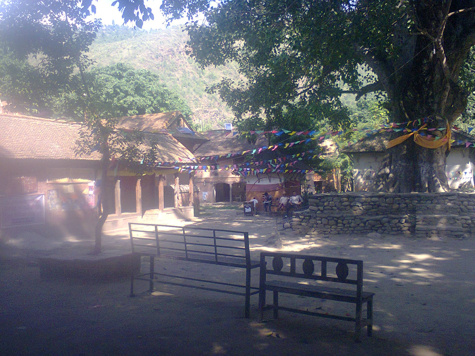 कुशेश्वर महादेव मन्दिर परिसर